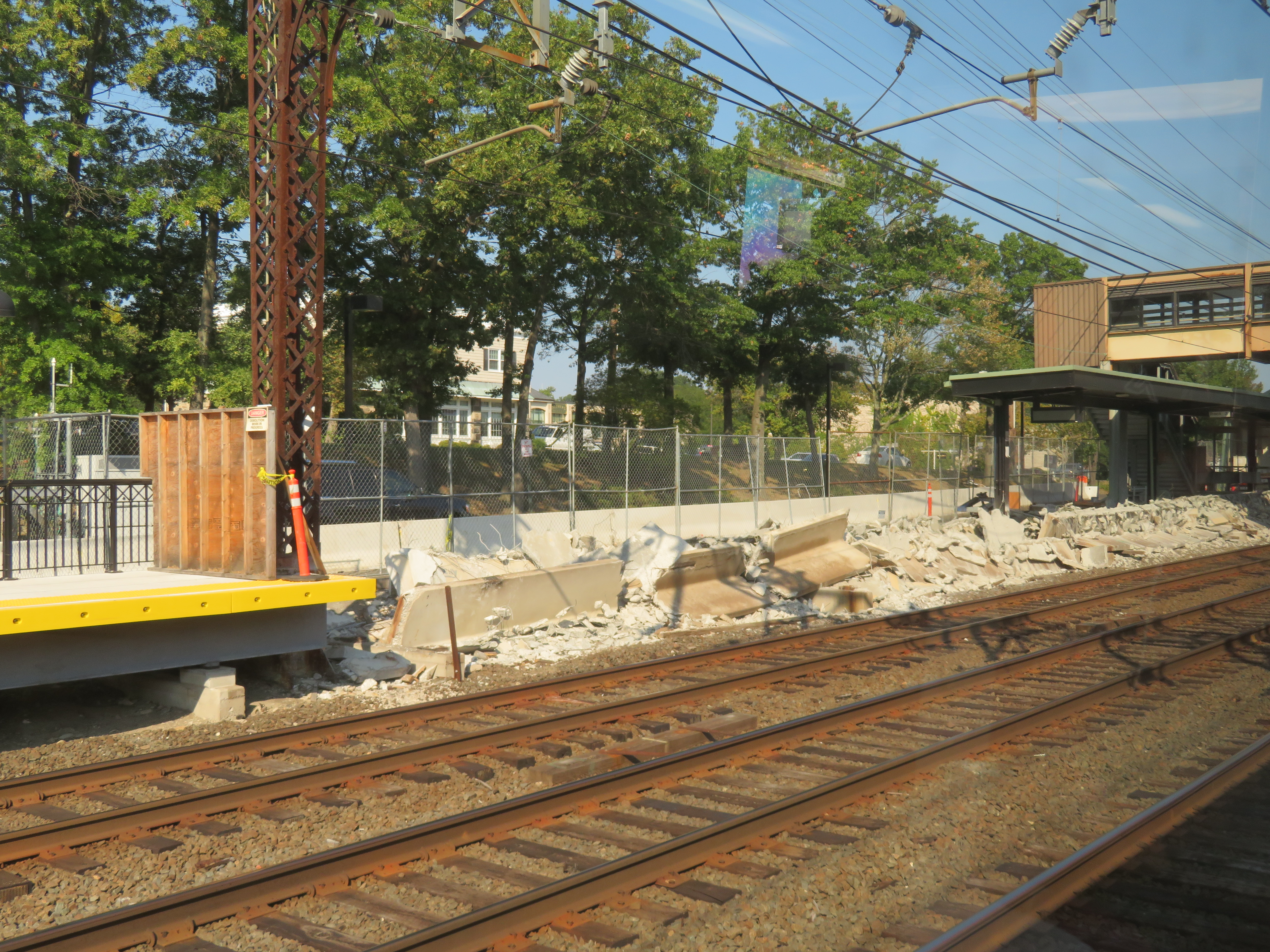 Reconstruction of the westbound platform at Noroton Heights station in September 2018